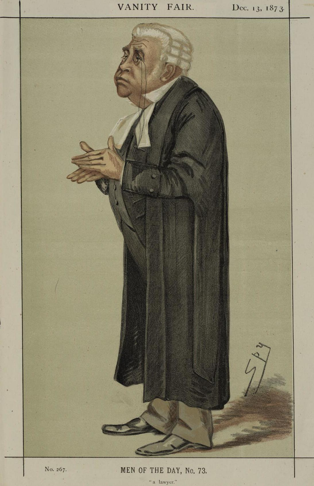 A portrait from the Welsh Portrait Collection at the National Library of Wales. Depicted person: John Humffreys Parry – English barrister and serjeant-at-law